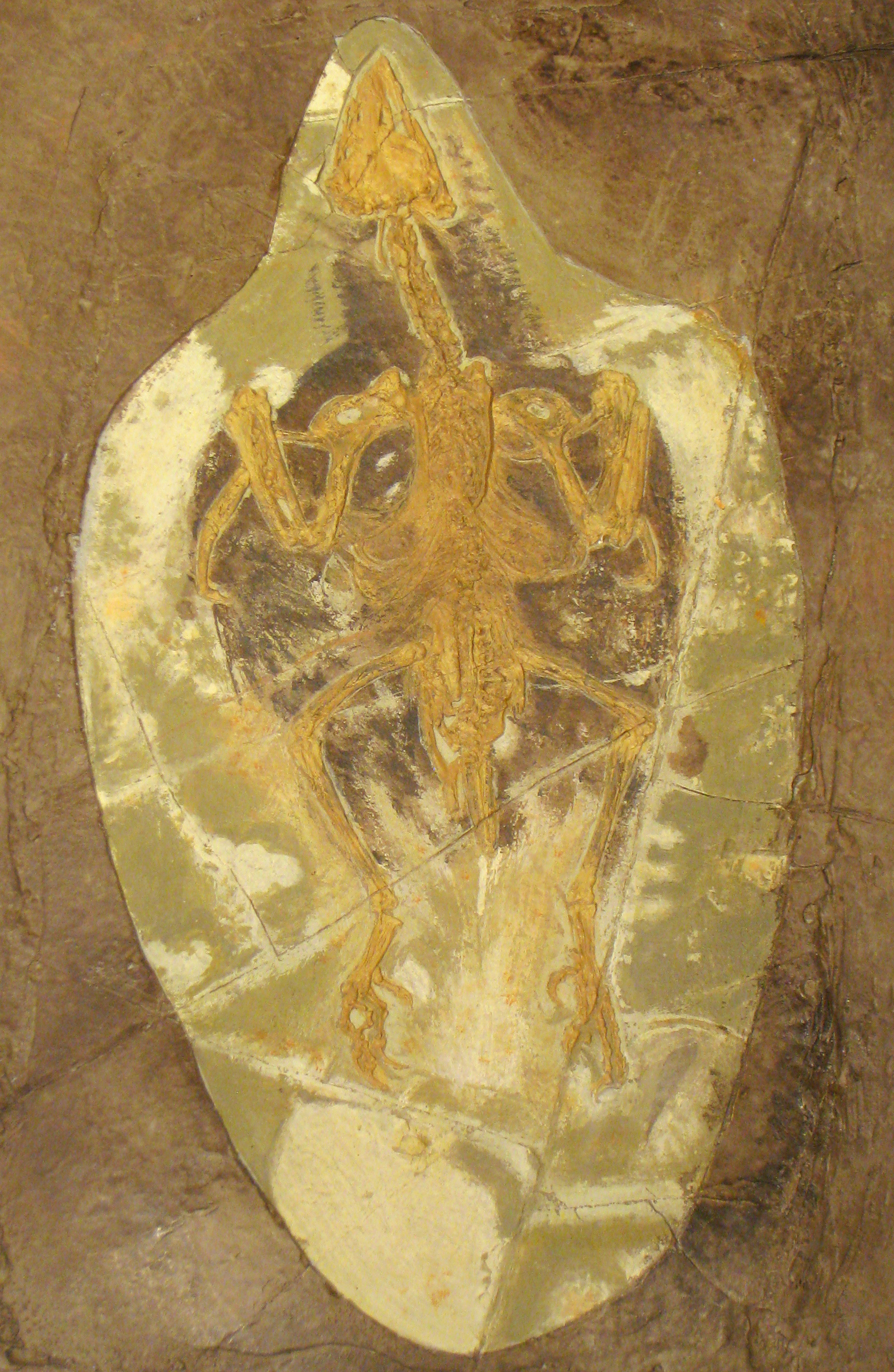 Confuciusornis sanctus, Carnegie Museum of Natural History, Pittsburgh, Pennsylvania, USA.